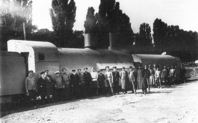 Hunhuz armoured train in Kyiv.